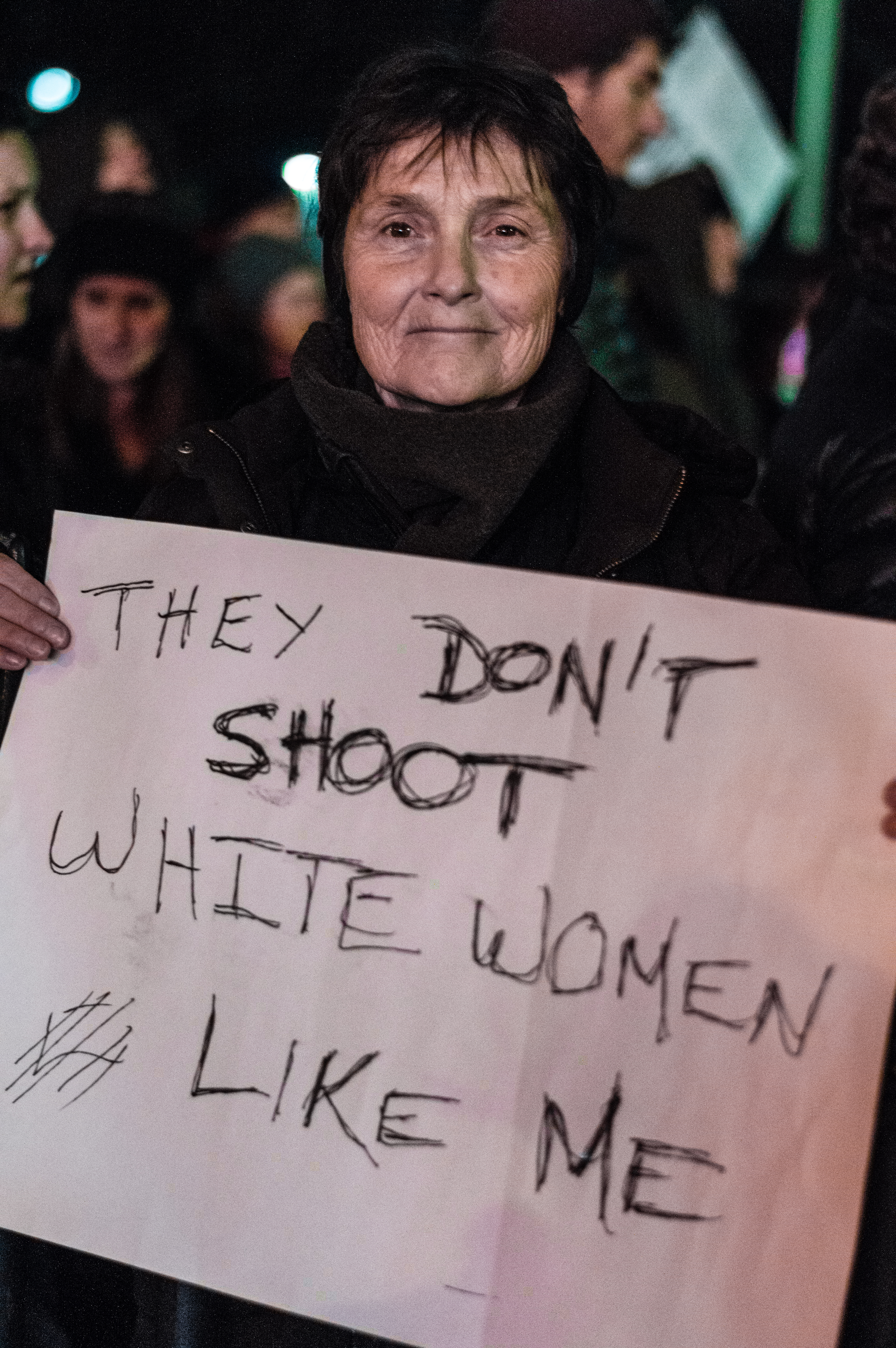 Protester holds a sign reading "They don't shoot white women like me" at a #BlackLivesMatter protest in the wake of the non-indictment of a New York City police officer for the death of Eric Garner. Several other members of the crowd are visible in the background. December 4th, 2014 Boston, MA